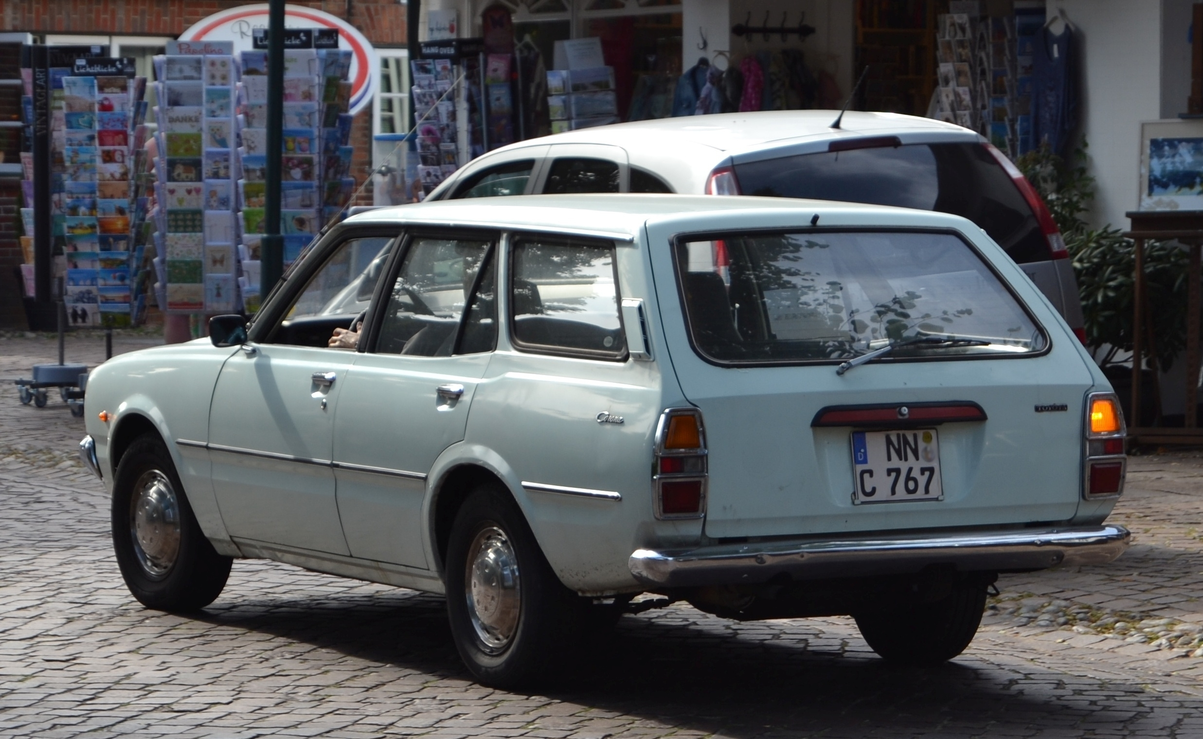 Toyota Corona (T100/T110/T120)